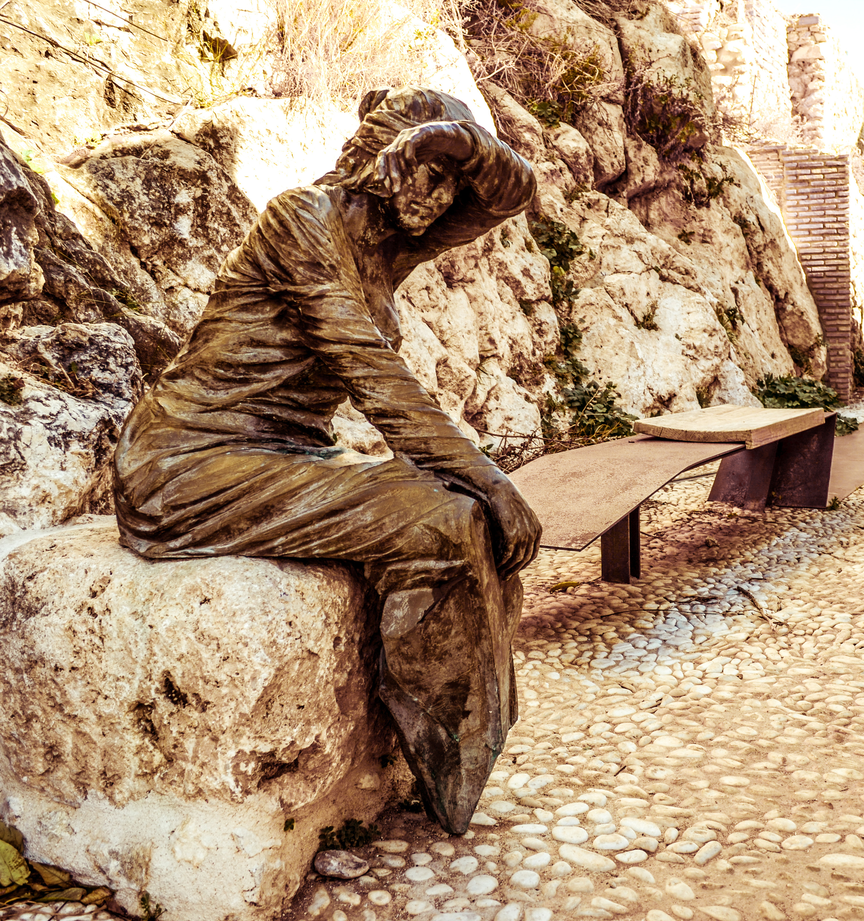 Morayma